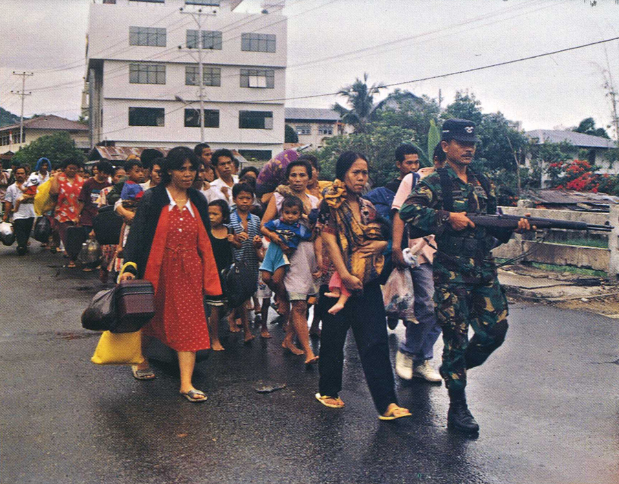 Indonesian military forces evacuate refugees of the Ambon religious riots.